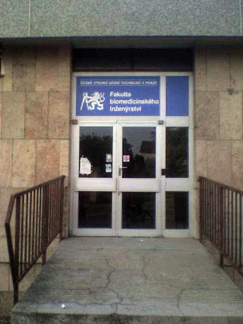 The Biomedicine Engineering Faculty of the Czech Technical University in Prague (ČVUT) in Kladno, Czech republic